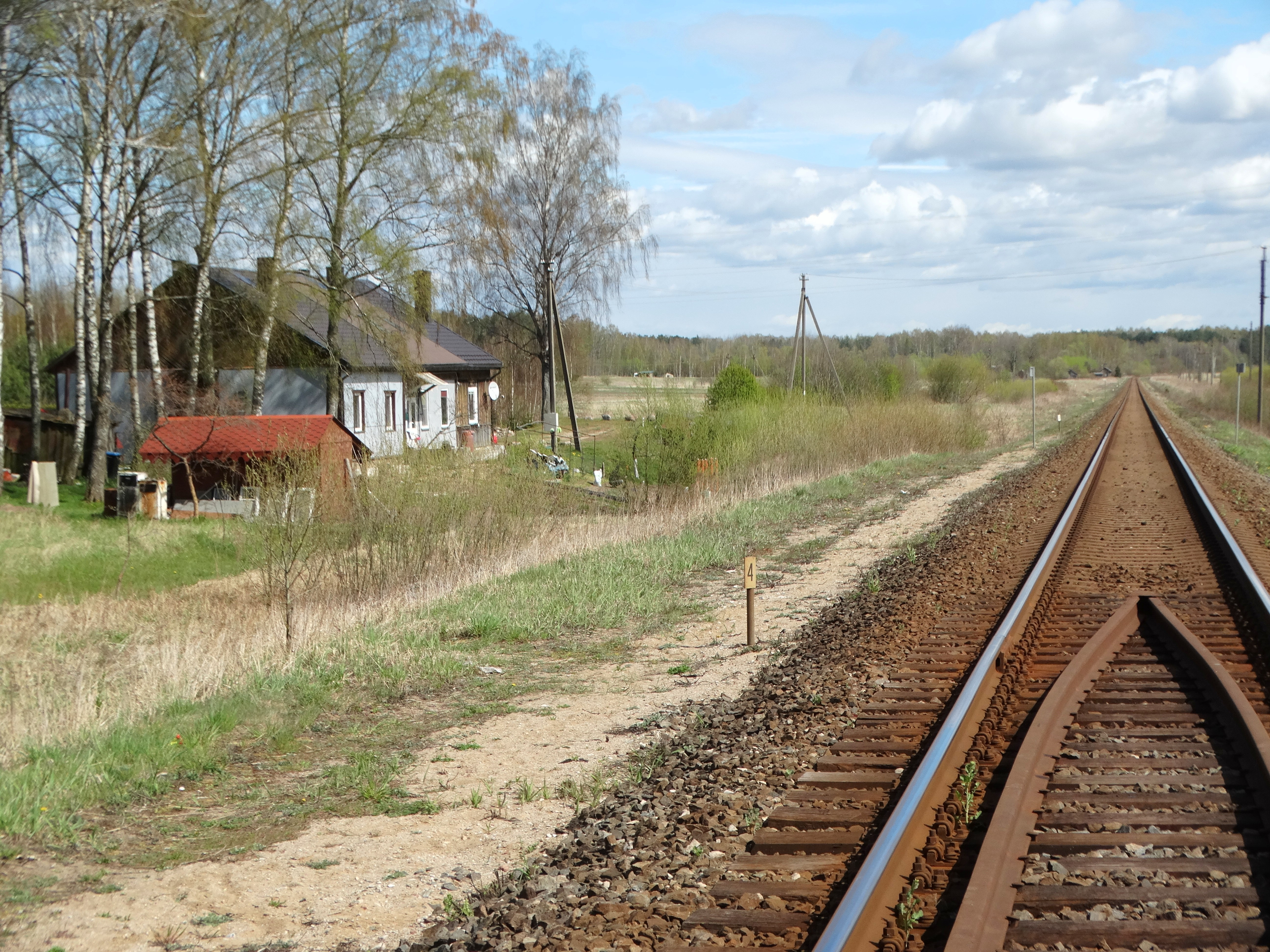 Staiginė, Tauragė district, Lithuania